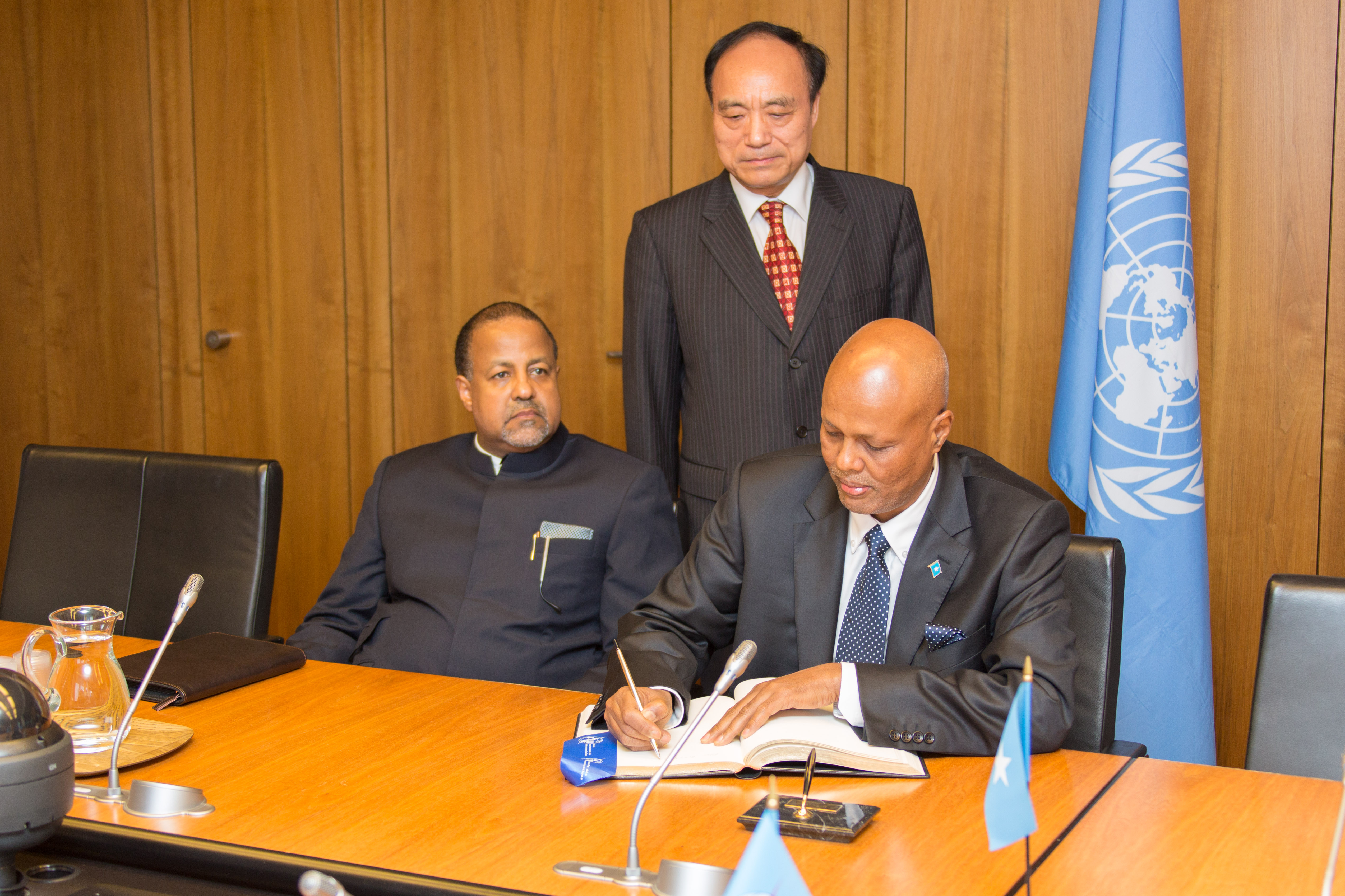 Prime Minister of Somalia Abdiweli Sheikh Ahmed paying a courtesy visit to the ITU headquarters.